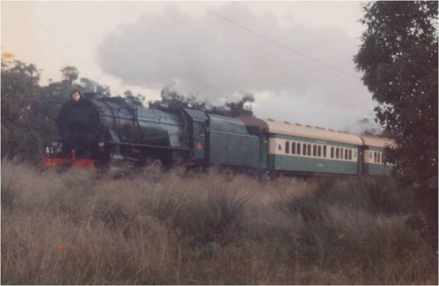 Ex-Western Australian Government Railways locomotive V1213 on a mainline tour with Hotham Valley Railway in the early 1990s. Corporal29 (talk) 07:23, 3 September 2011 (UTC) category: locomotives